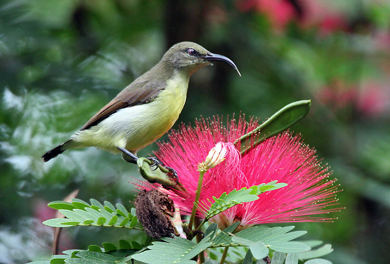 Purple-rumped Sunbird (Leptocoma zeylonica) in Kolkata, West Bengal, India.